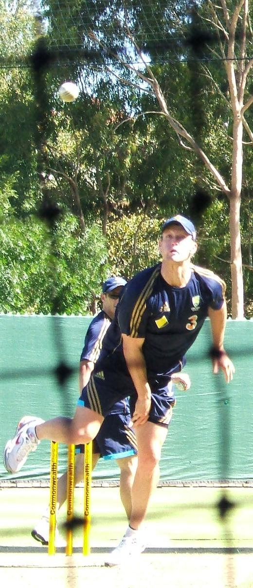 Cameron White at a training session at the Adelaide Oval